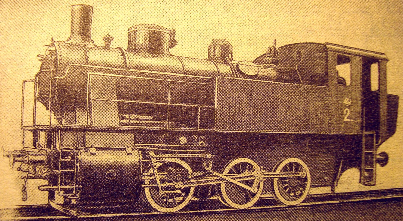 Soviet tank loc type T48